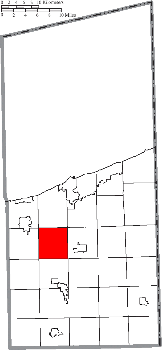 Map of the municipal and township boundaries of Ashtabula County, Ohio, United States, as of the 2000 census, with the location of Austinburg Township highlighted. Township borders are shown only in unincorporated areas in order to differentiate incorporated and unincorporated areas more clearly.